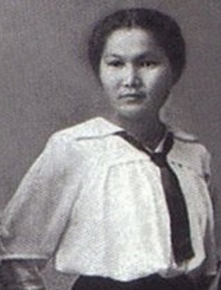 Akkagaz Doszhanova (1893-1932), the first female doctor of Kazahstan (1922)